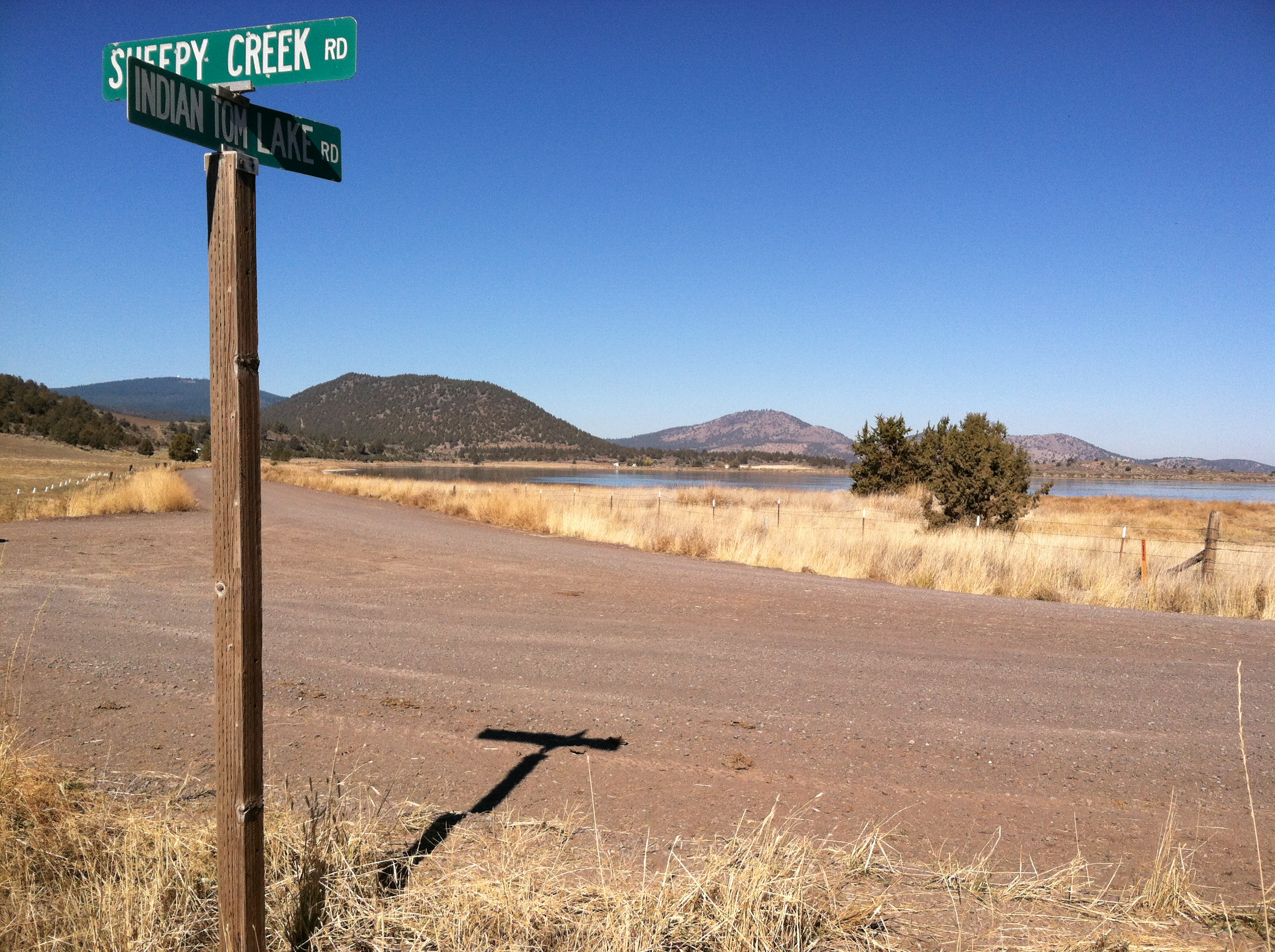 Indian Tom Lake in the background, off Sheepy Creek Rd